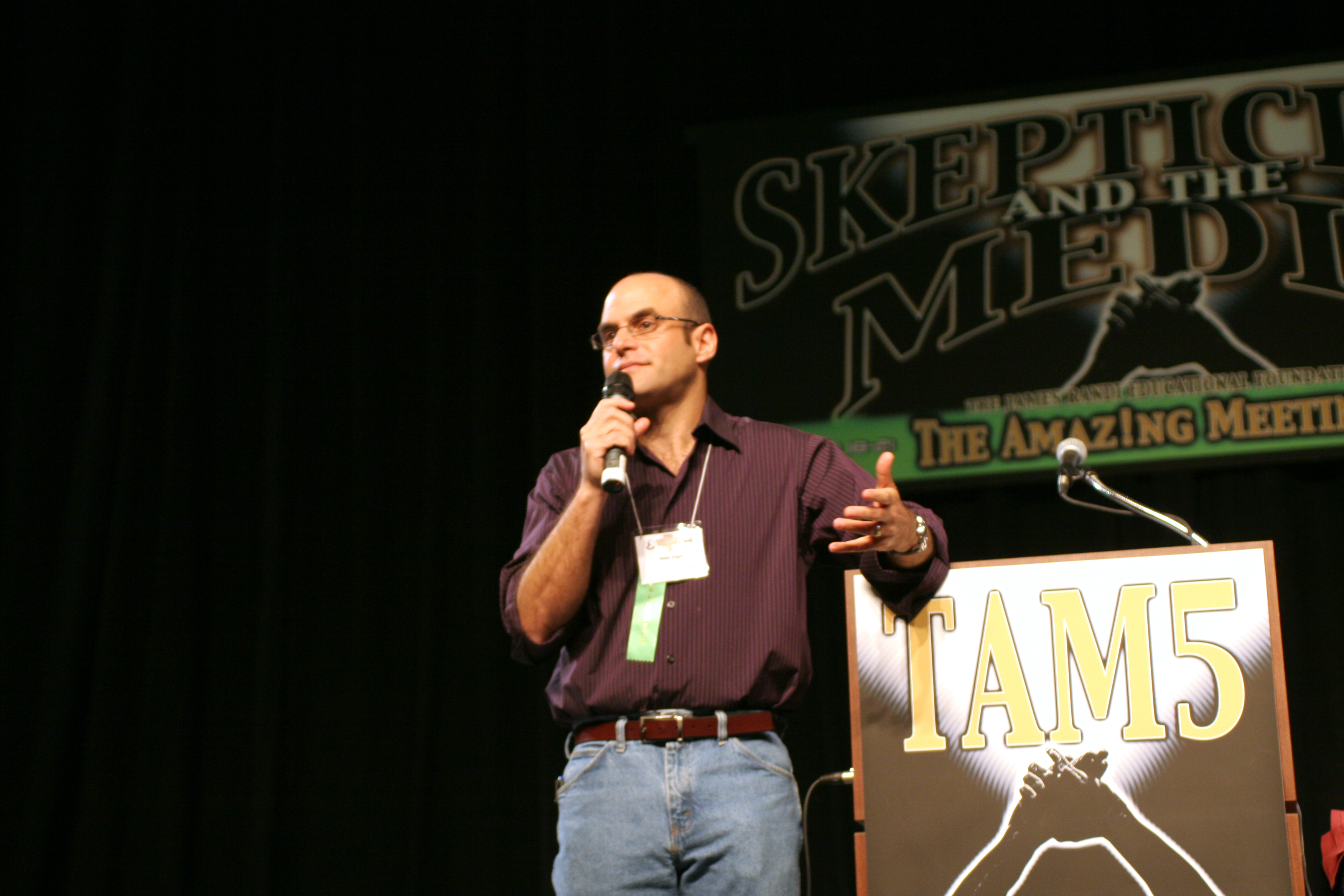 TAM 5 - Peter Sagal